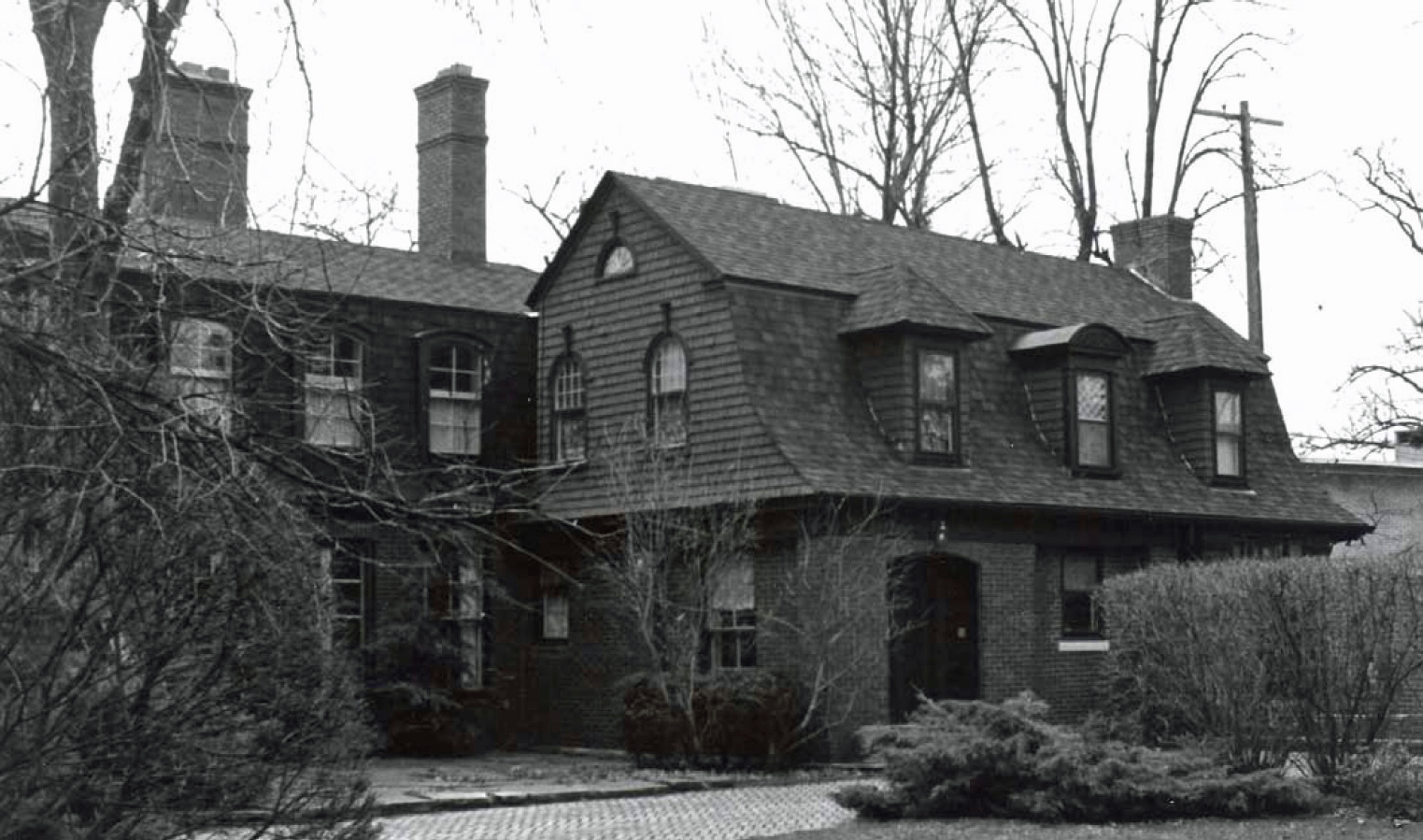 House of Hazen Pingree family, Grosse Pointe, Michigan 1909, 1935 (Hugh T. Keyes addition)